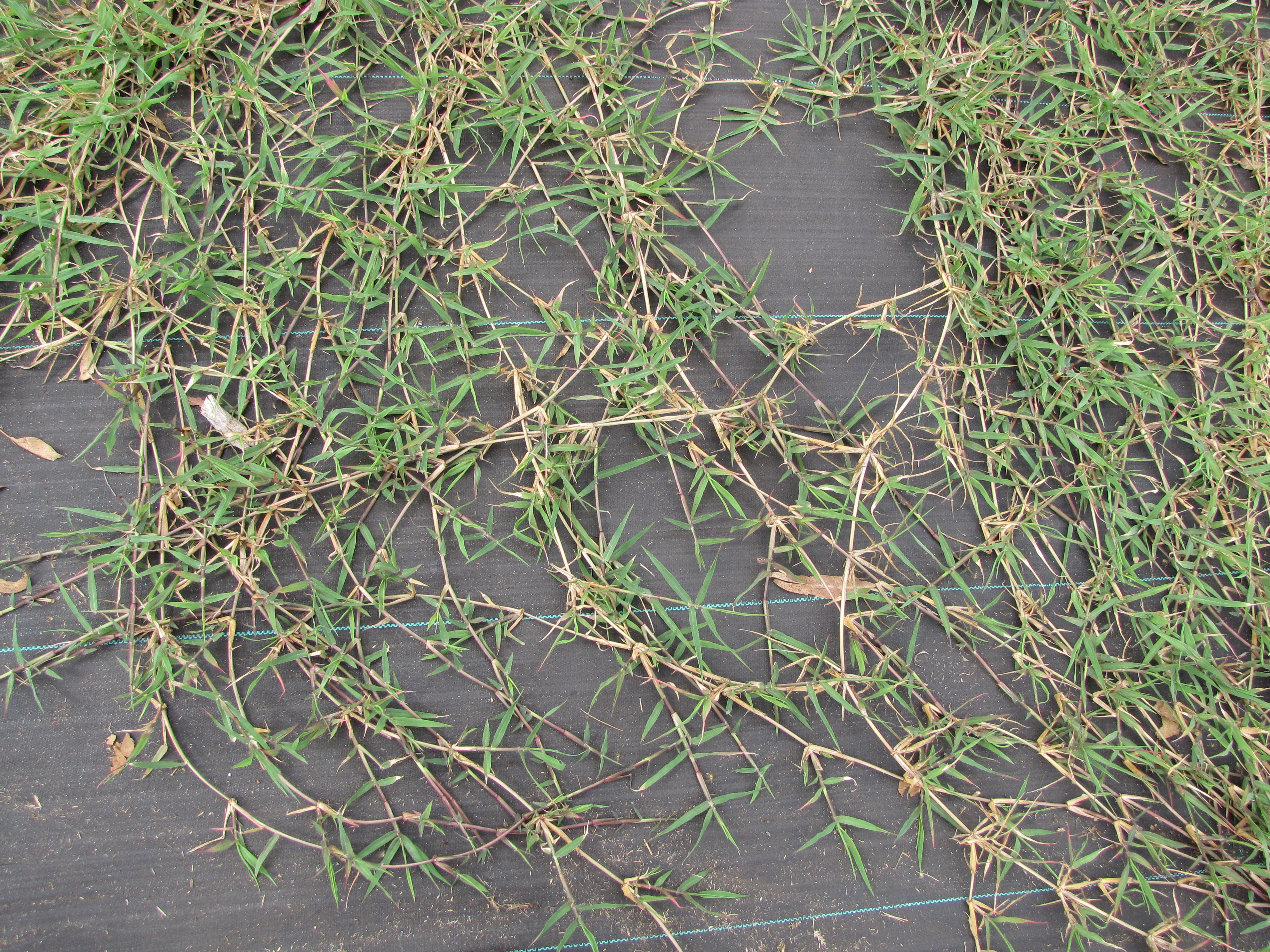 Cynodon nlemfuensis (African Bermudagrass) Runners at Ulupalakua Ranch, Maui, Hawaii. June 08, 2012 #120608-7264 Image Use Policy